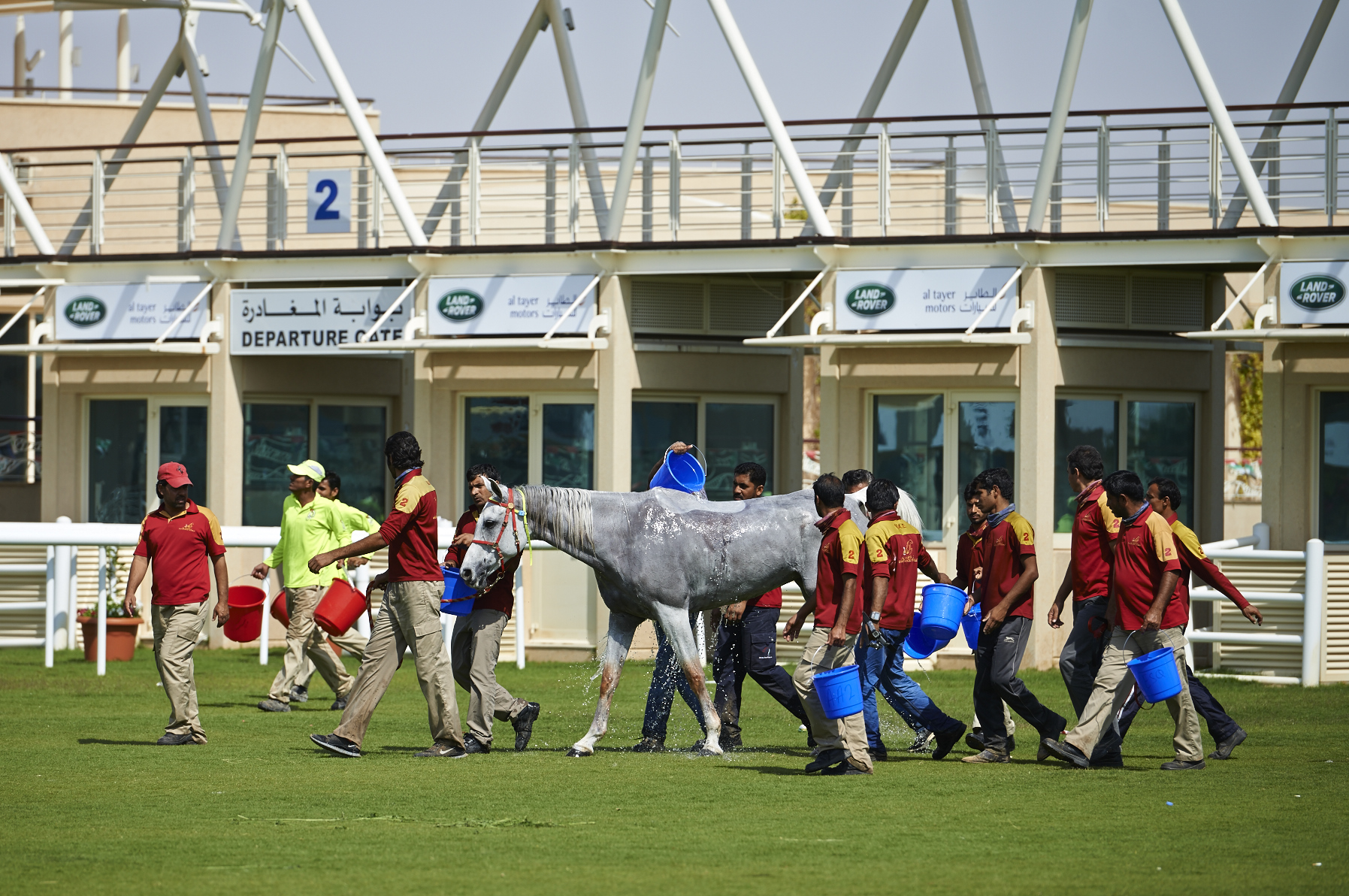 The 120km Gamilati Endurance Race took place on 7 February, riders and horses alike competing across five stages at the state of the art Dubai International Endurance City in the United Arab Emirates. After an exciting evening of competition, the event’s three lucky winners walked away with a Range Rover Sport HSE and Range Rover Evoque Dynamic: bit.ly/1g0dShY